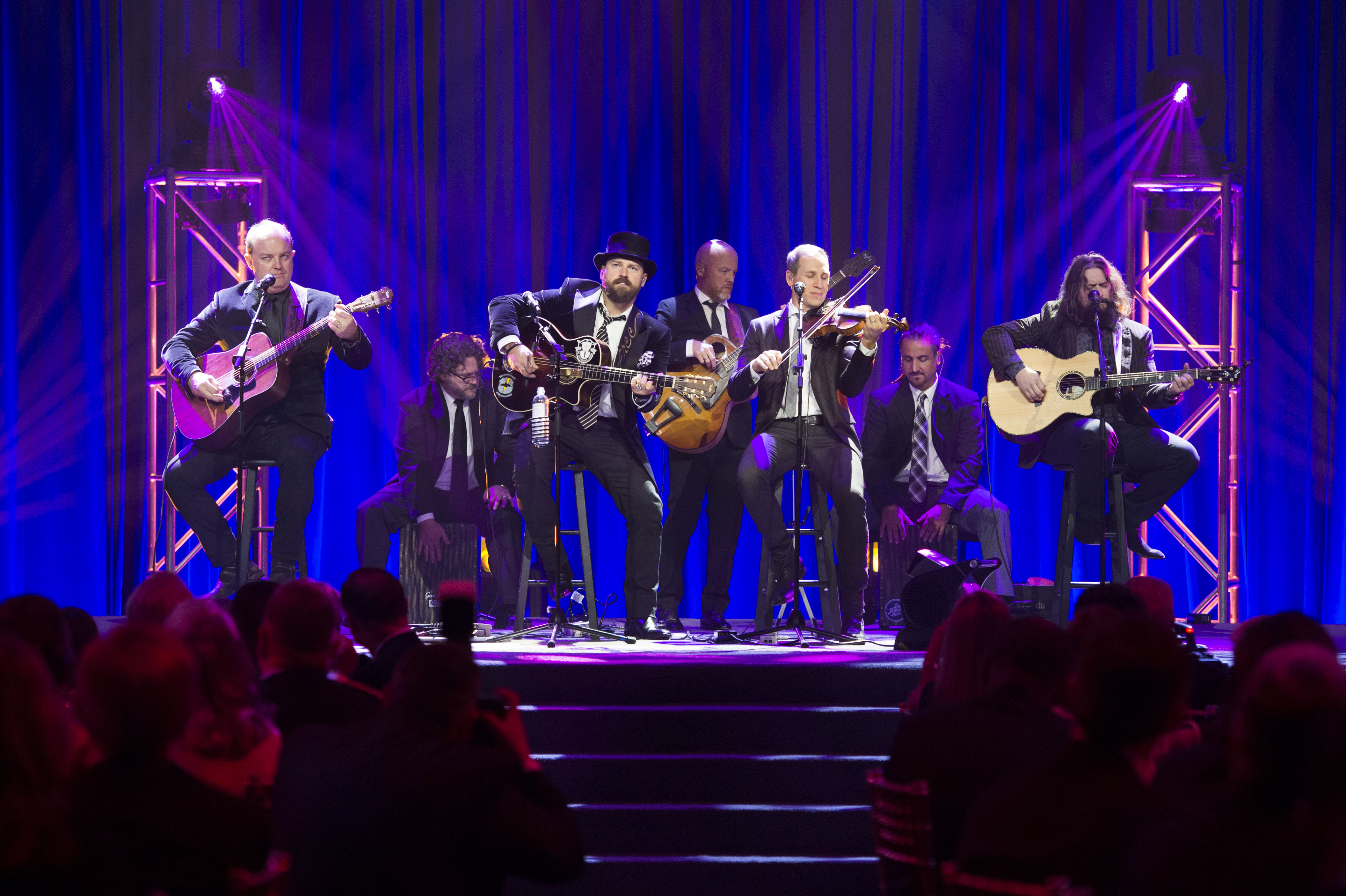 USO Annual Service Member of the Year Gala, Washington, D.C., October 20, 2016. (U.S. Army photo by Sgt. 1st Class Chuck Burden)